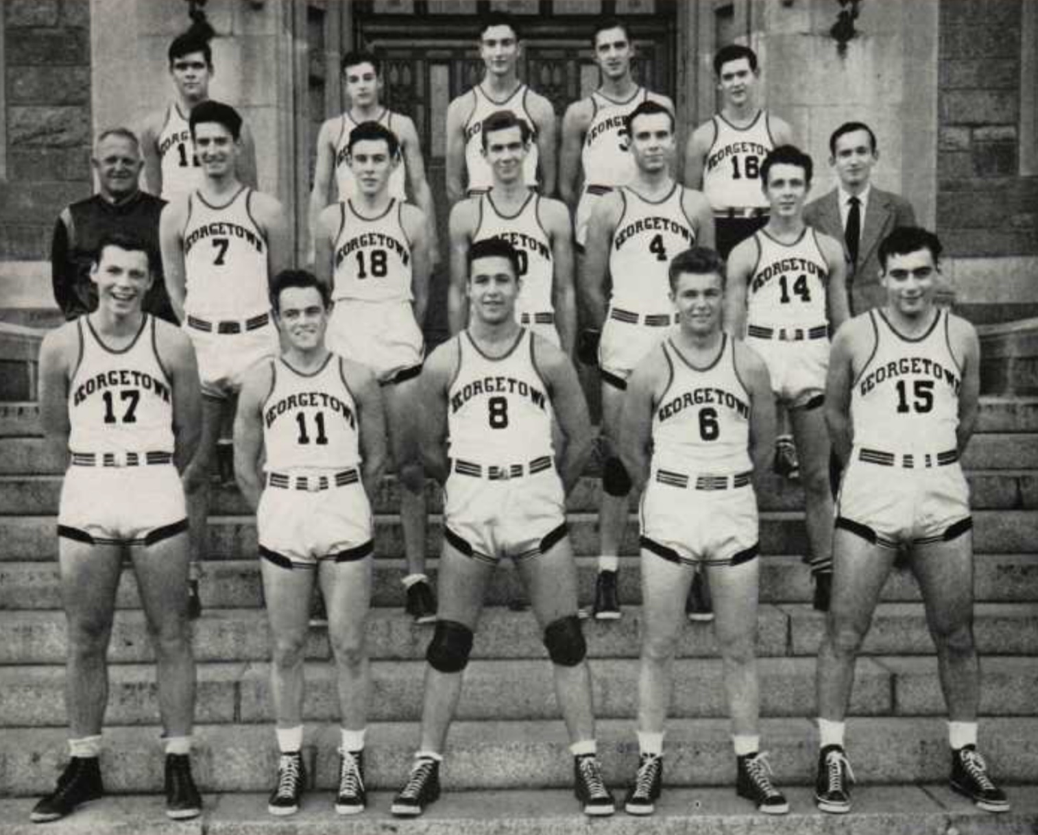 The 1942-43 Georgetown University Hoyas basketball team from the 1943 “Domesday Booke” yearbook.